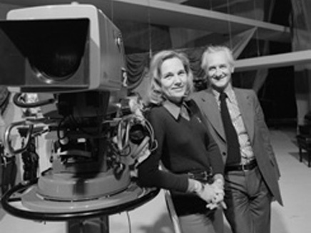 Maritie and Gilbert Carpentier on the set of one of their shows, at the mythic studio 17 of the Buttes-Chaumont studios in Paris.